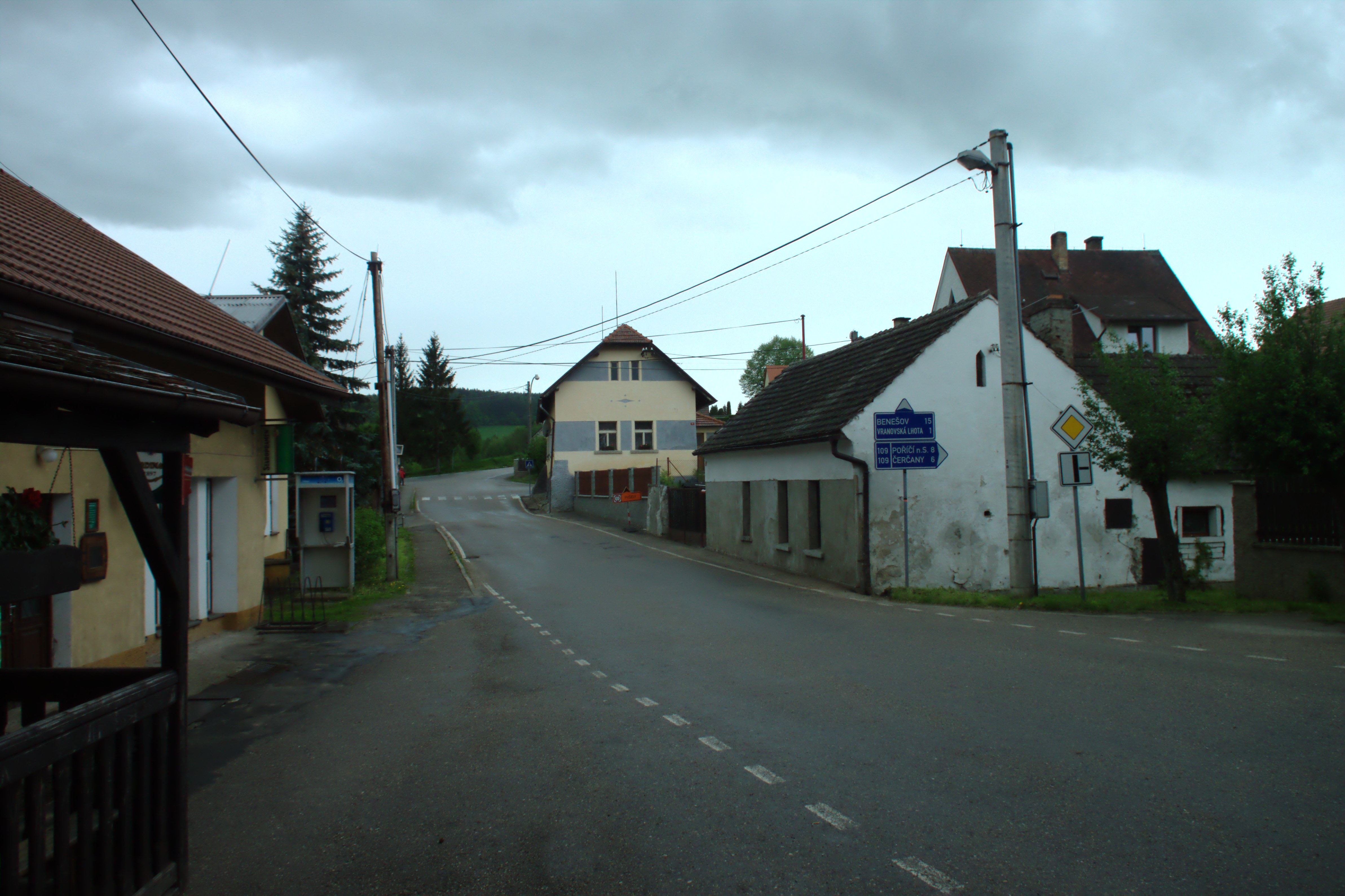 Main road in the town of Vranov, Benešov District, CZ